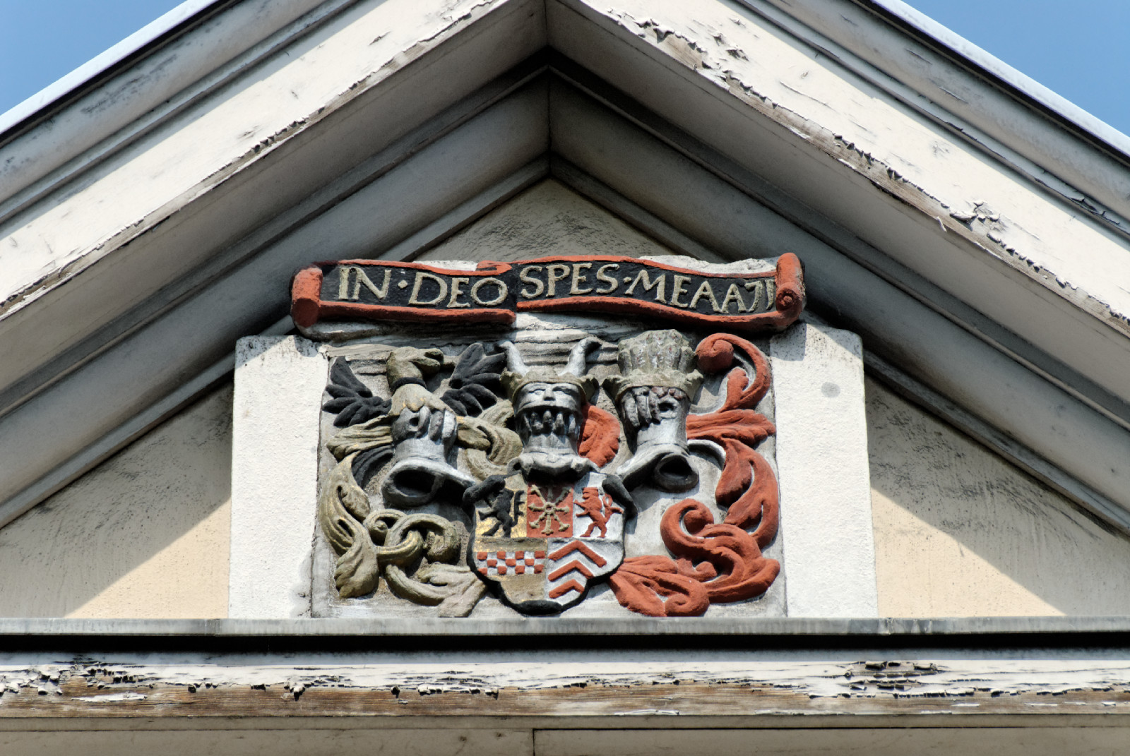 Relief at house Ratinger Straße 6 in Düsseldorf-Altstadt, Germany